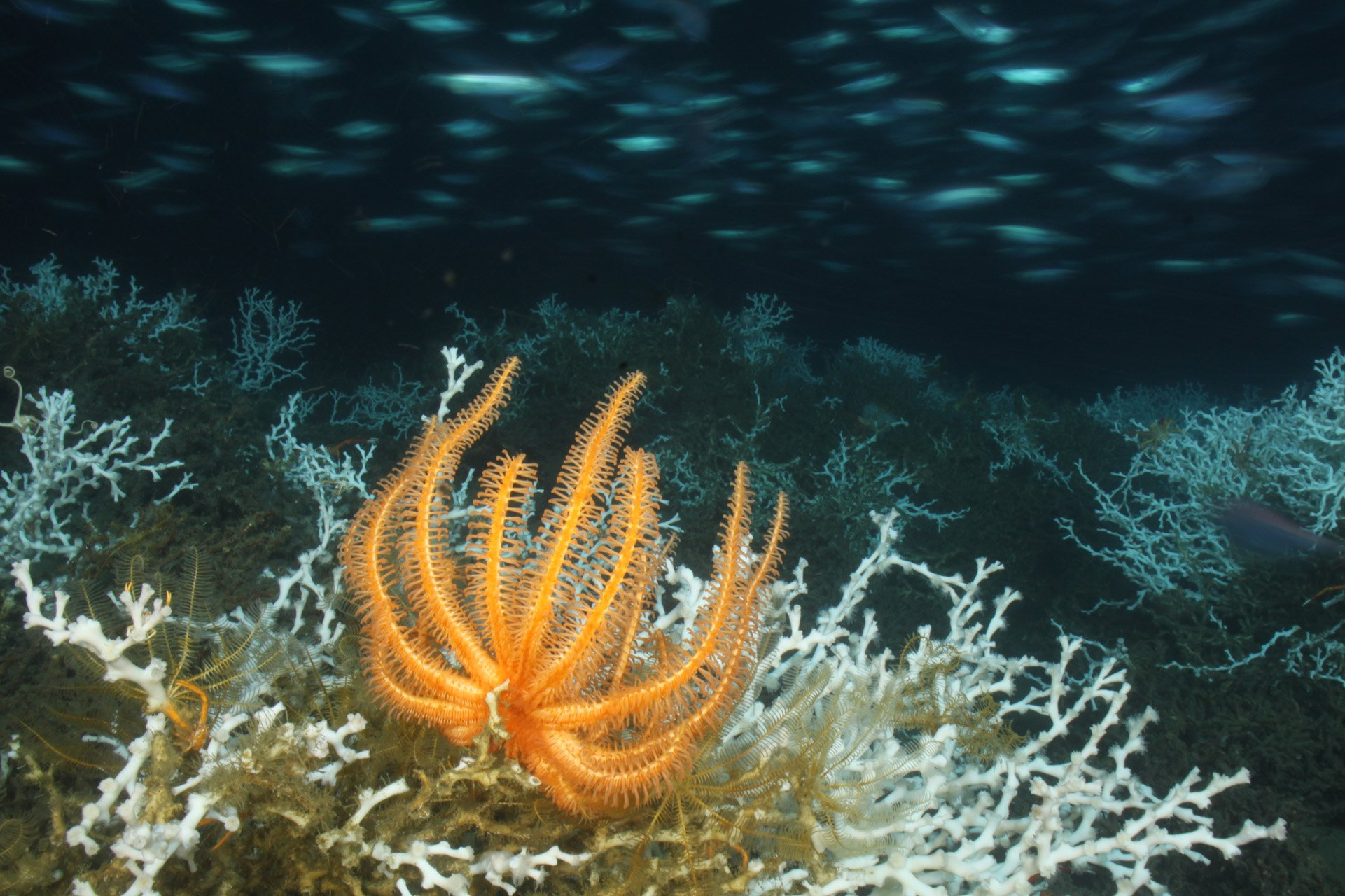 An orange brisingid basket star on the large Lophelia pertusa reef at 450m depth in Viosca Knoll 826. At the top of the image is a school of Beryx fish swimming over the top of the reef. Gulf of Mexico.